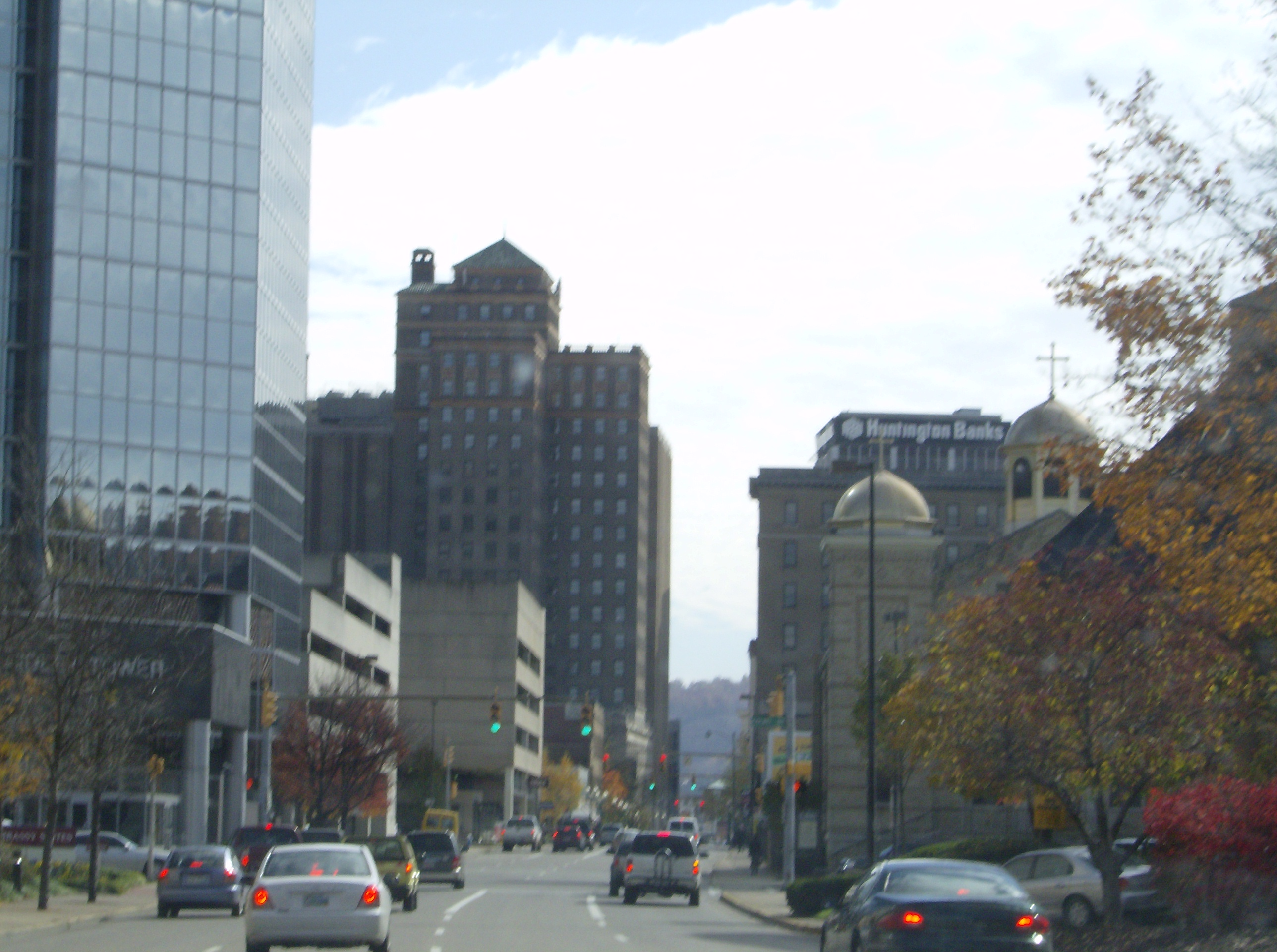 A picture from Lee Street, in midtown Charleston, WV.